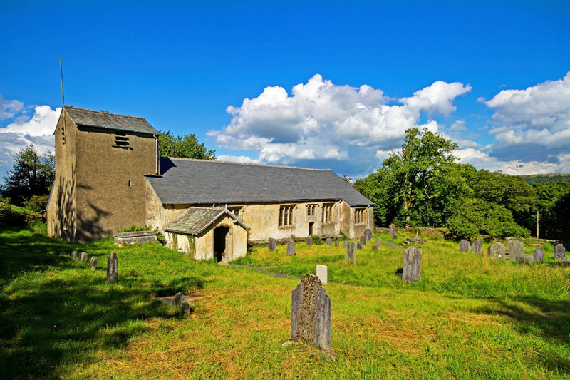 Cartmel Fell Church, near to Cartmel Fell, Cumbria, Great Britain. The church at Cartmel Fell hidden amongst the woodland.